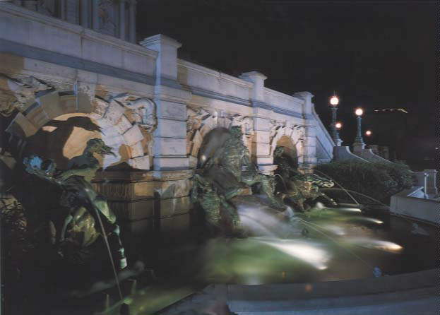 Fountain of Neptune outside the Thomas Jefferson Building of the Library of Congress in Washington, D.C.